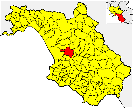 Locator map of the municipality of Roccadaspide (red) within the Province of Salerno